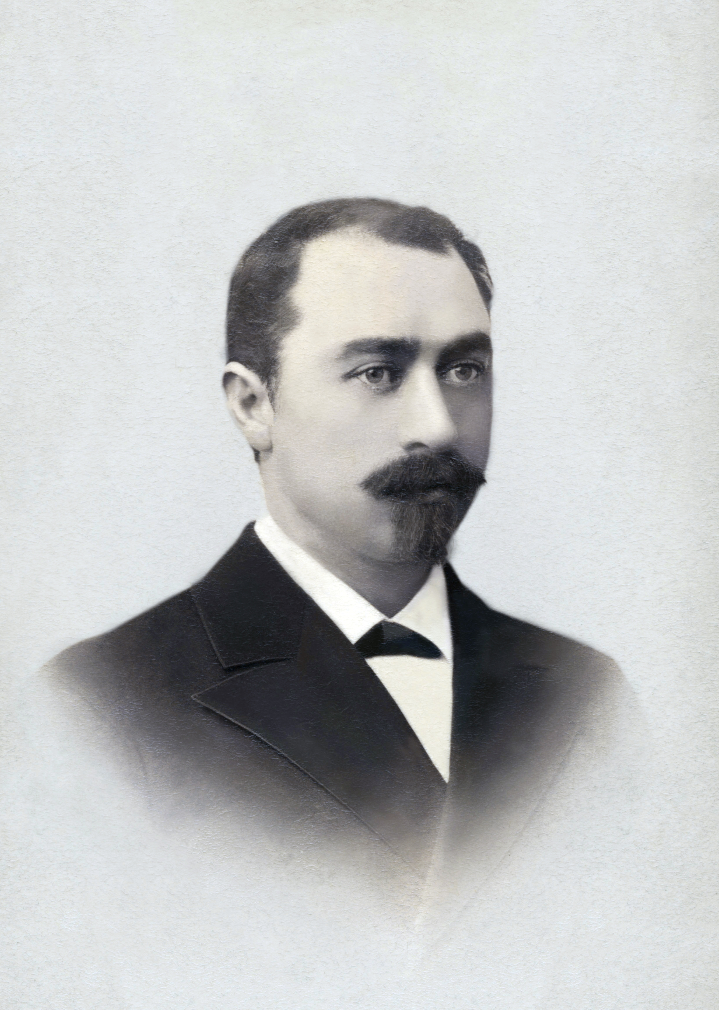 Varlaam Gelovani